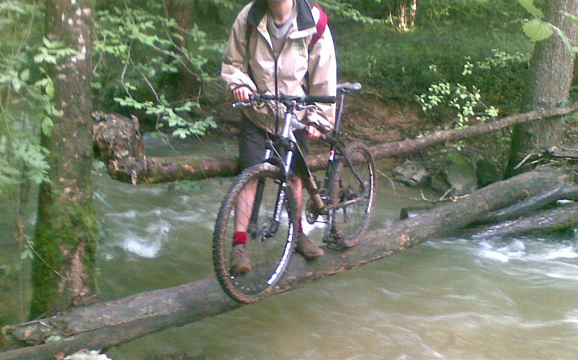 Succinct wooden beam footbridge (log bridge), over swollen Alzou river (Ouysse tributary), Lot, France